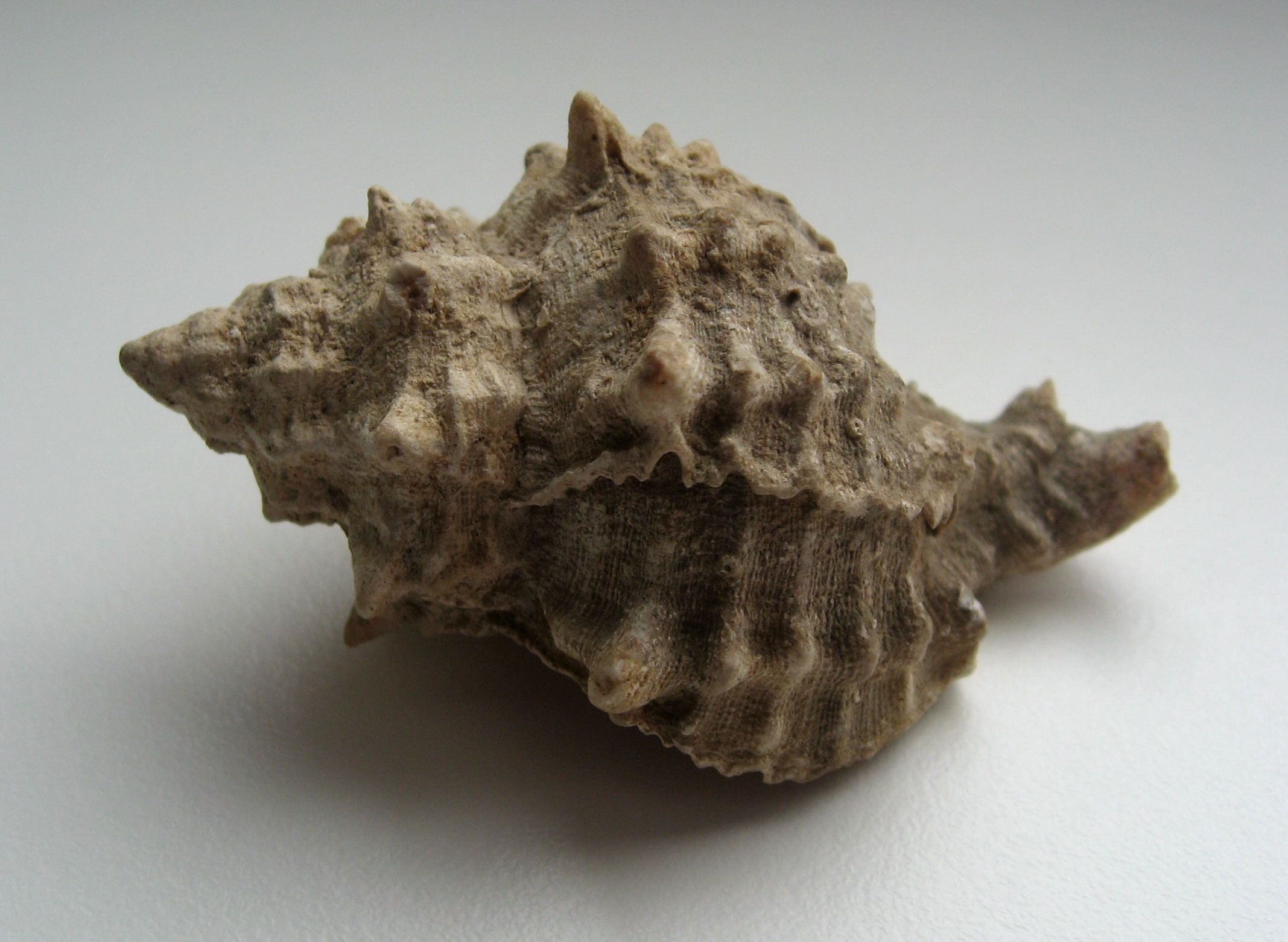 Photo of the shell of Hexaplex trunculus.